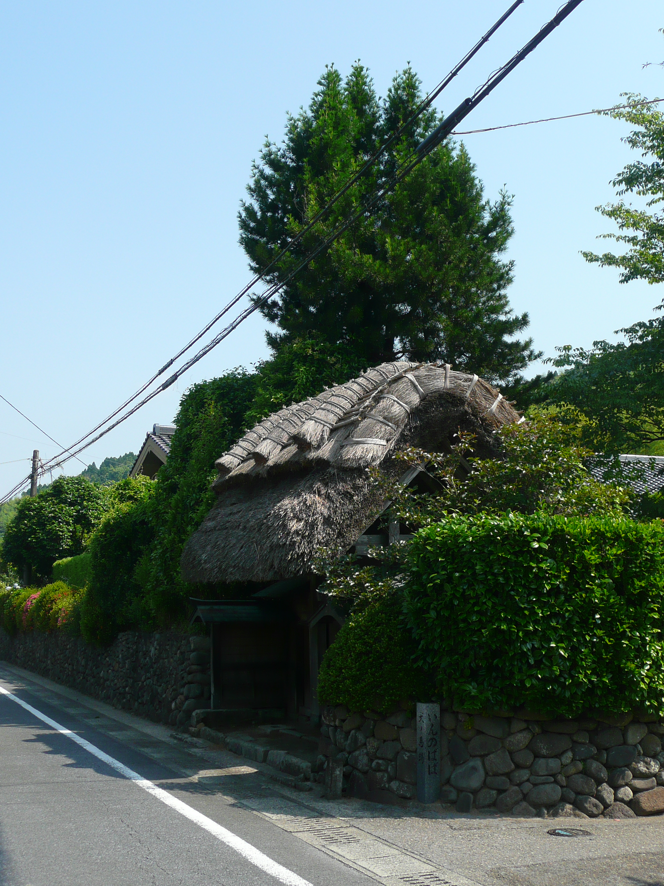 Thatching Gate - Iriki Humoto (Satsumasendai City, Kagoshima Prefecture, Japan)